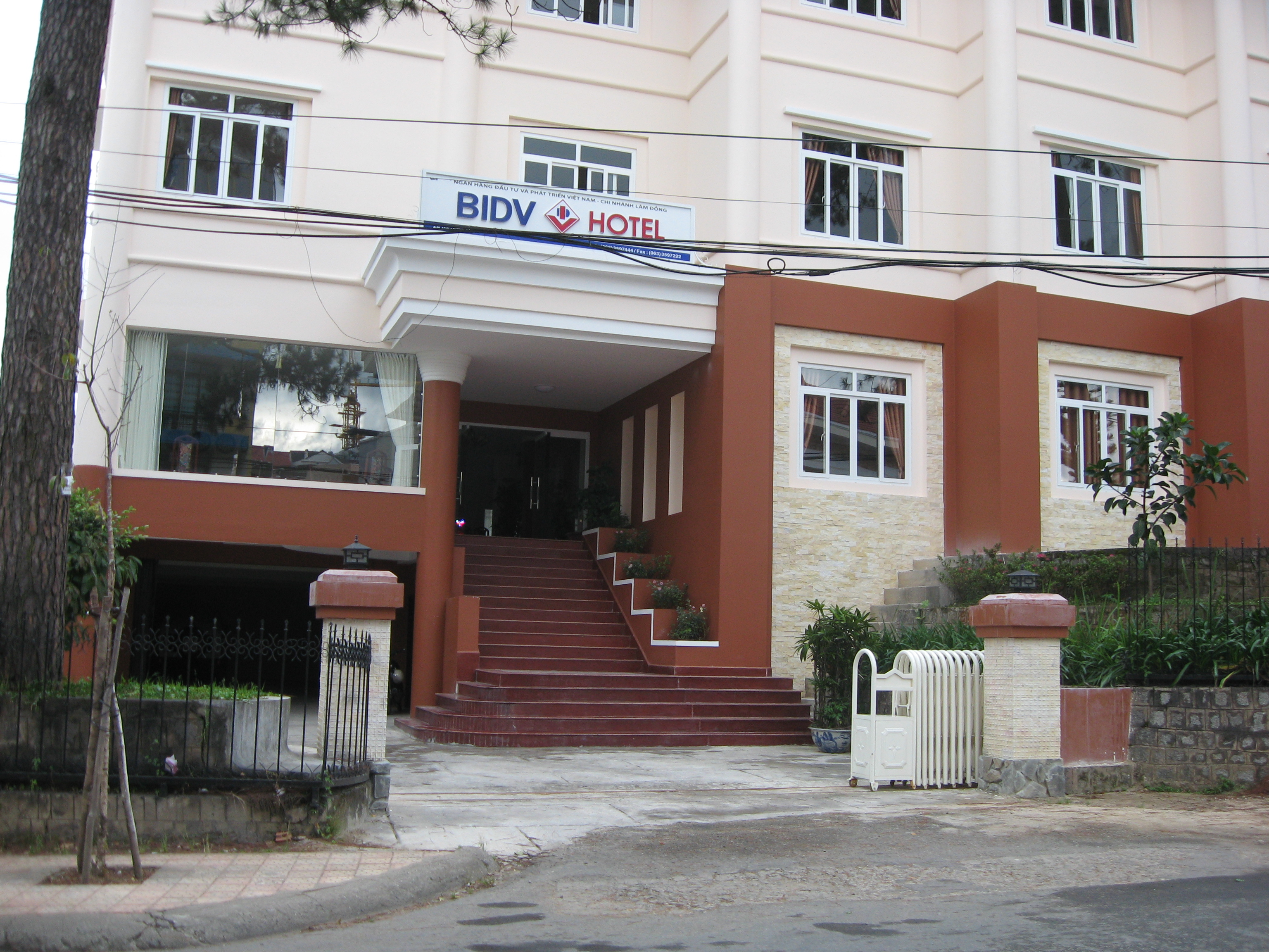 BIDV hotel, Ba Trieu, Da Lat